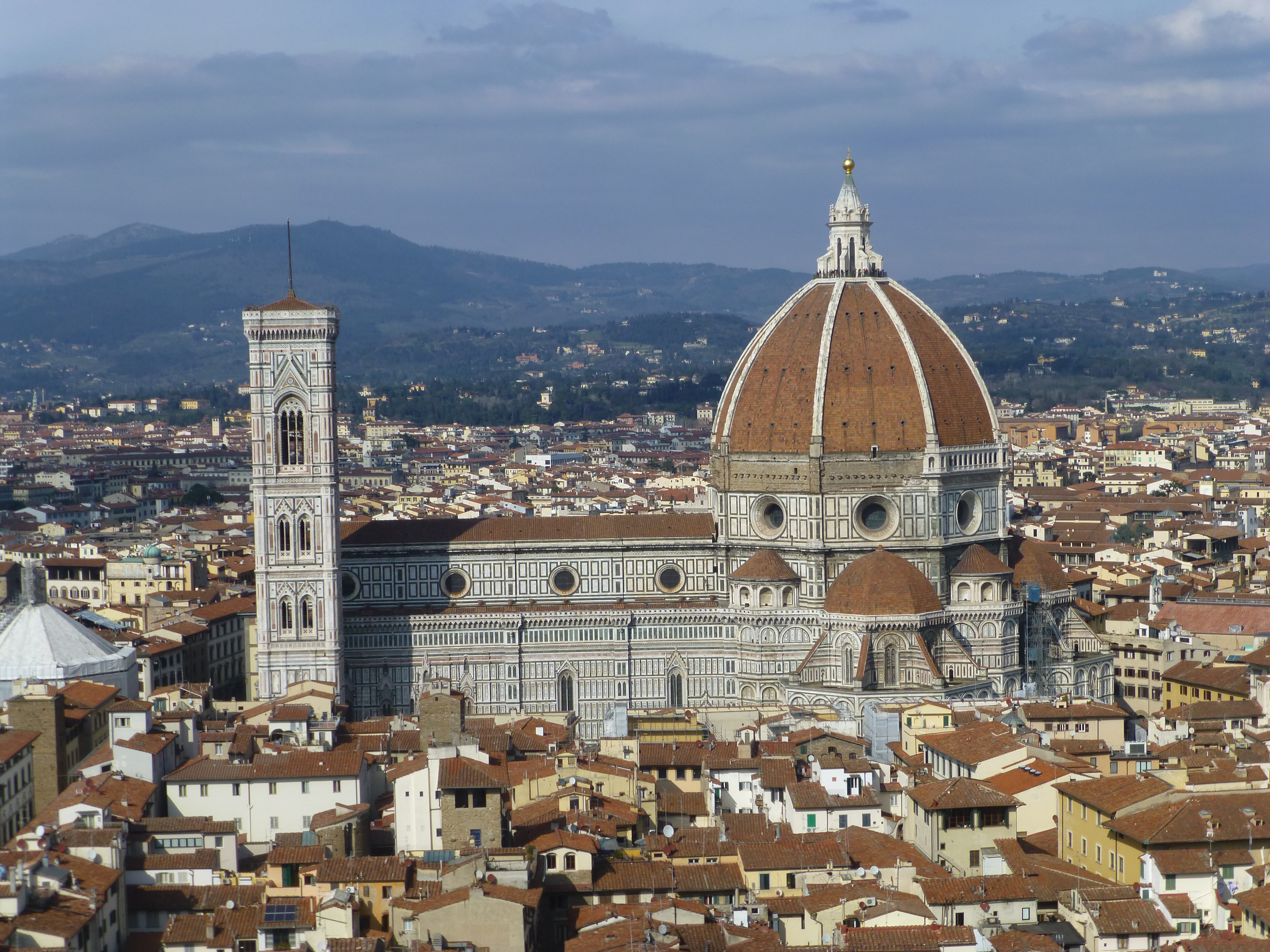 Cattedrale di Santa Maria del Fiore, Firenze, Italy. Photo taken from Palazzo Vecchio tower looking north.